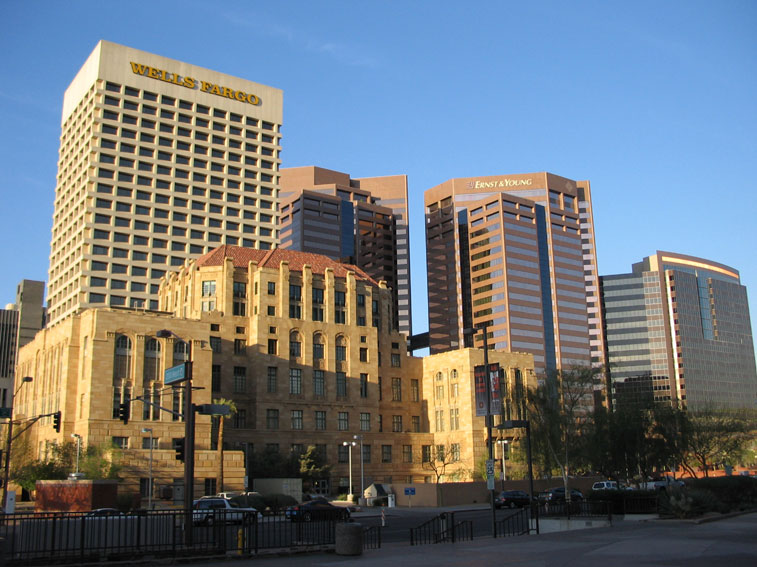 Picture of a section of downtown Phoenix, AZ that I took in March, 2006